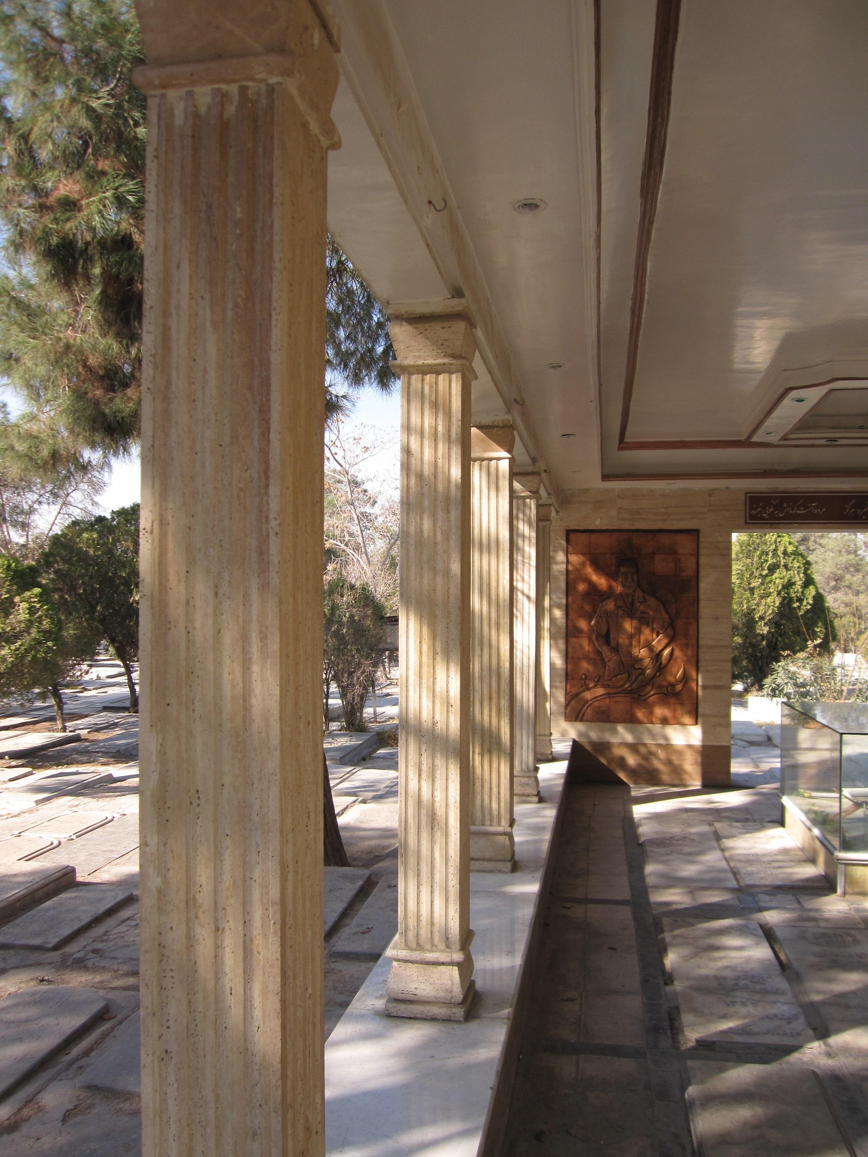 Iran- Tehran - Rey - Gholamreza Takhti's Tomb.